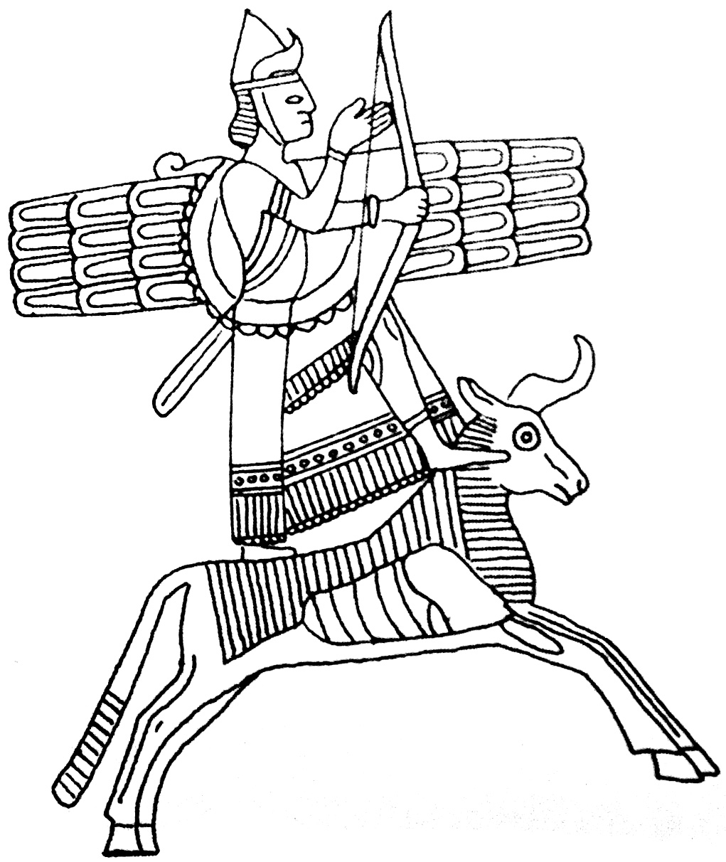 Urartian God from a shield discovered at Anzaf fortresses, Turkey